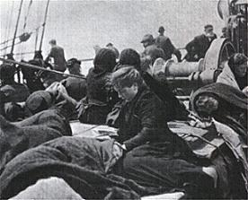 Italian emigrants on the deck of a ship bound for the USA